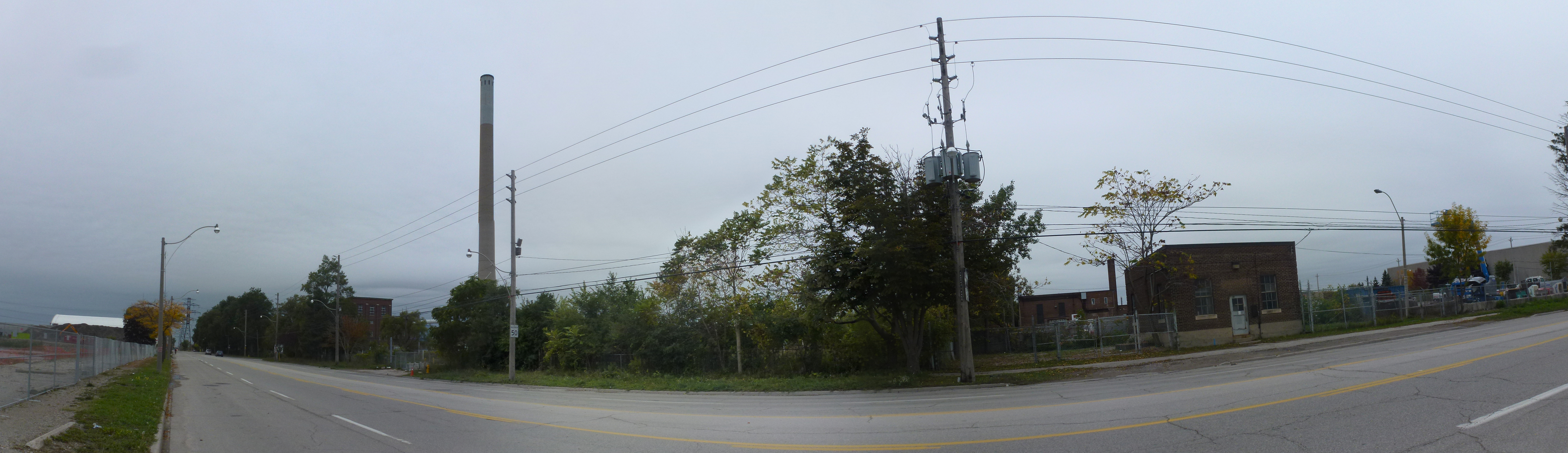 Commissioner, in the Port Lands, 2013 10 05 (1,2,3,4,5,8)